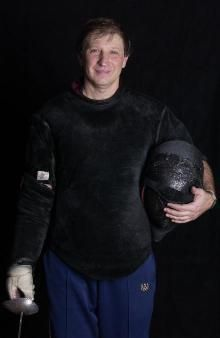 Maestro Yury Gelman dressed up in his fencing gear.